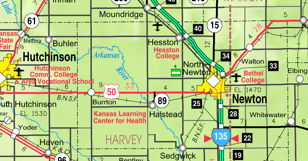 This map of Harvey County, Kansas, USA, is copied at a resolution of 300 pixels/inch from the original PDF file.